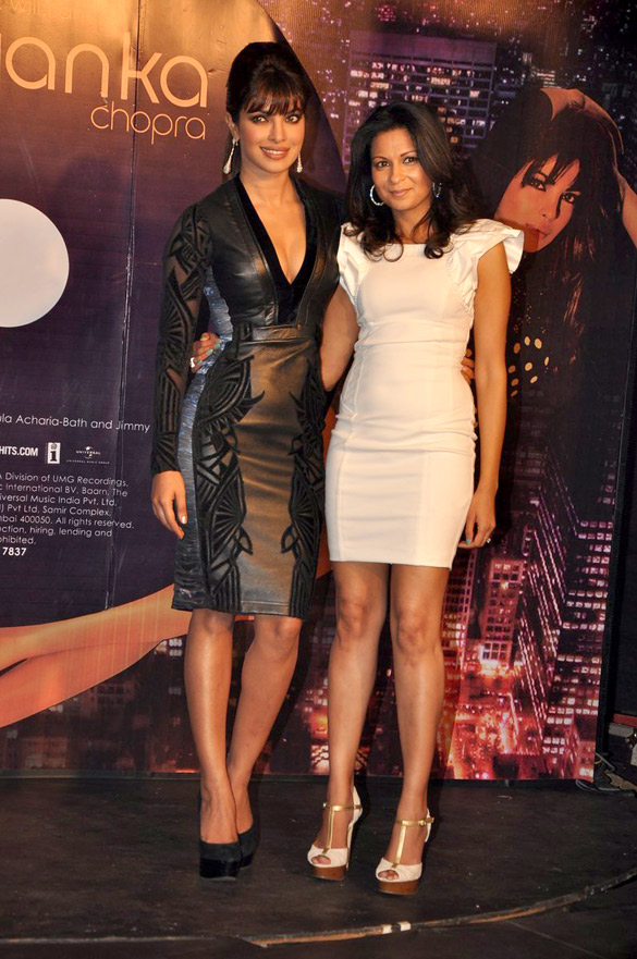 Priyanka Chopra unveils her album 'In My City'